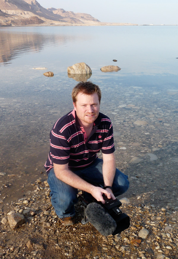 Photo of Brady Haran at the Dead Sea.